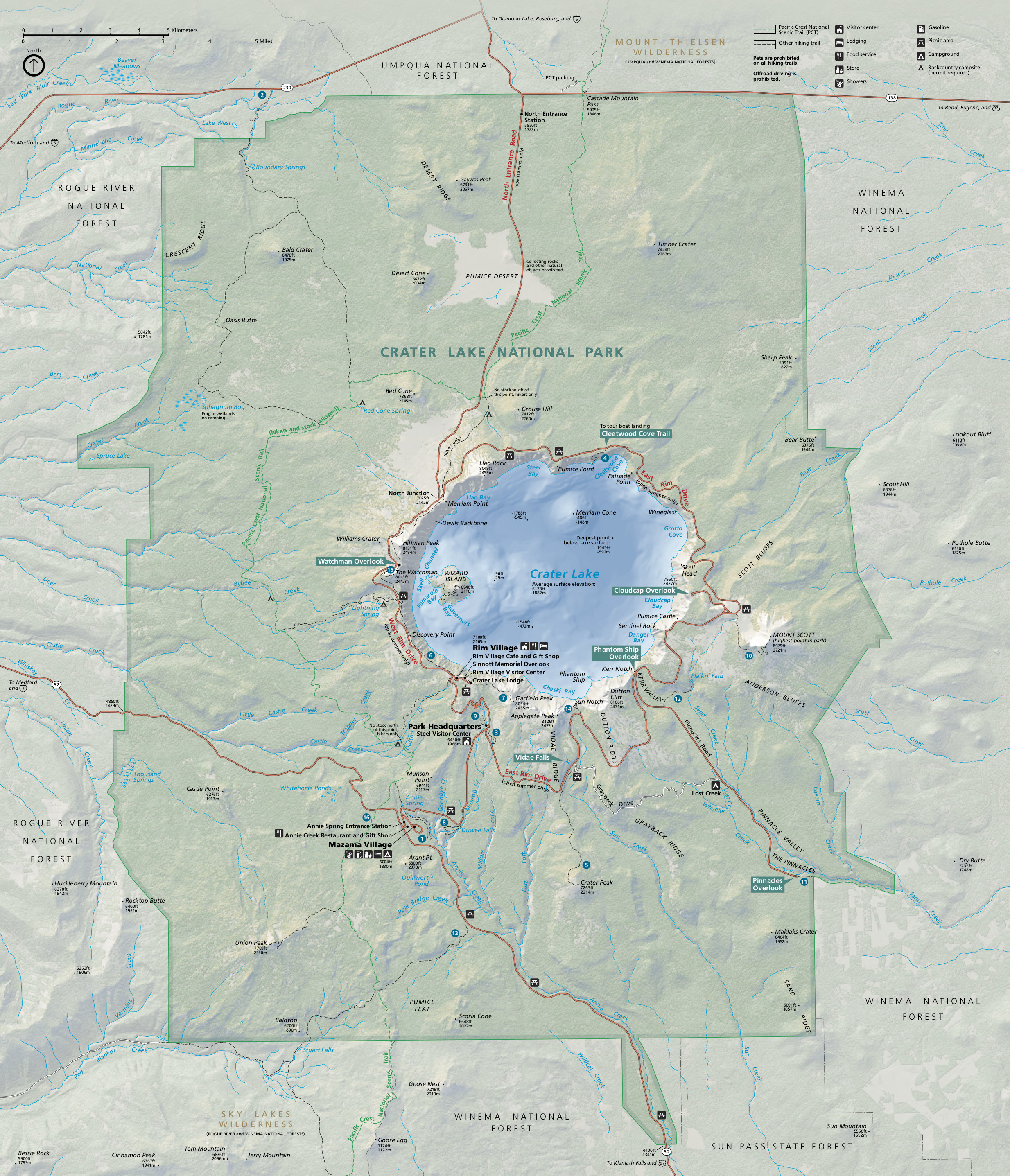 Official Crater Lake map from the park brochure, showing roads, trails, campgrounds, and points of interest.